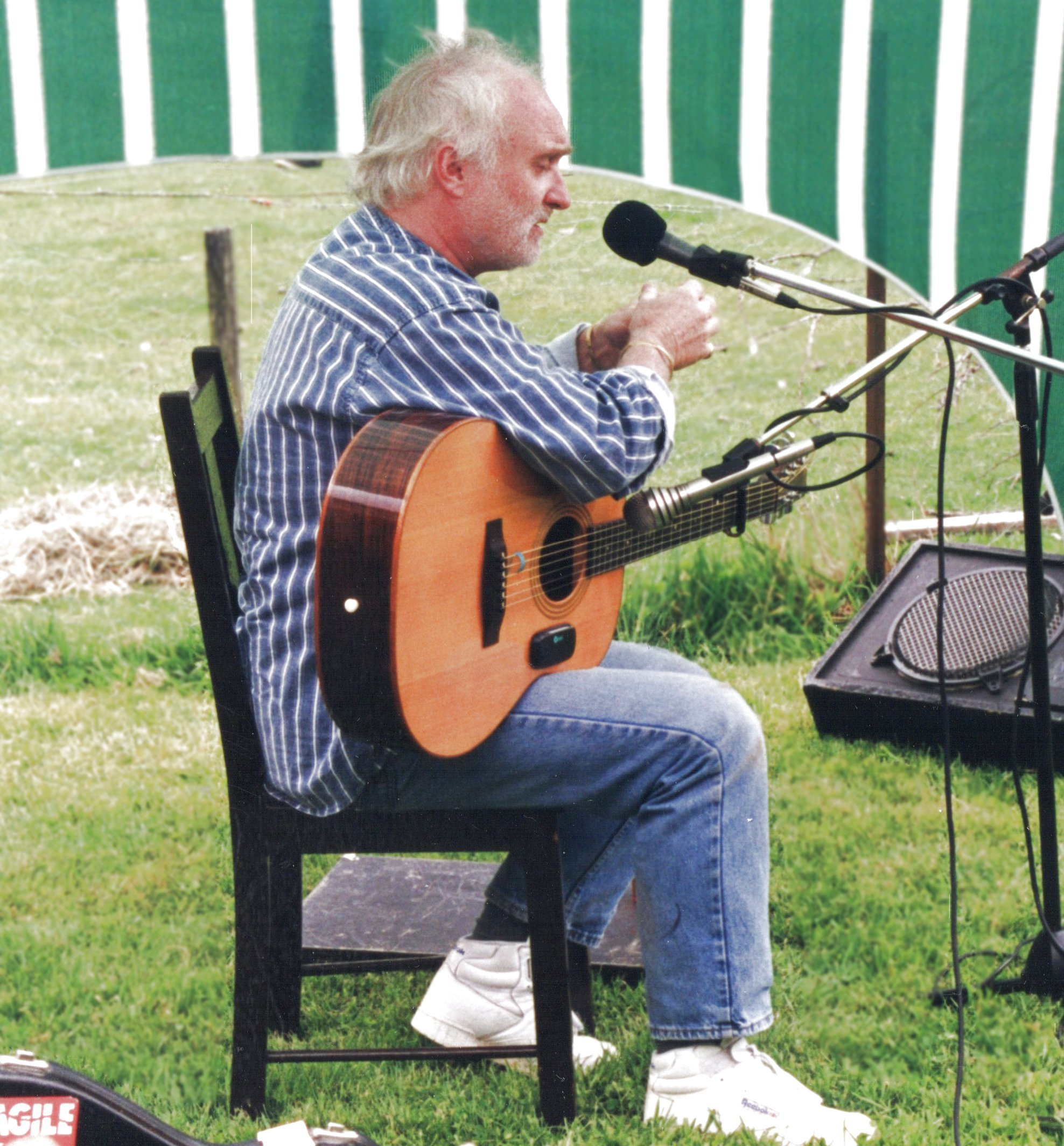 Martyn Wyndham-Read (UK folk musician), Tasmania, 1997 (Tony Rees photograph)